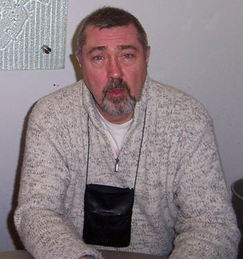 English actor Brian Croucher, "Travis" in the Blake's 7 television programme, at the Blake's 7 Series 2 DVD launch.